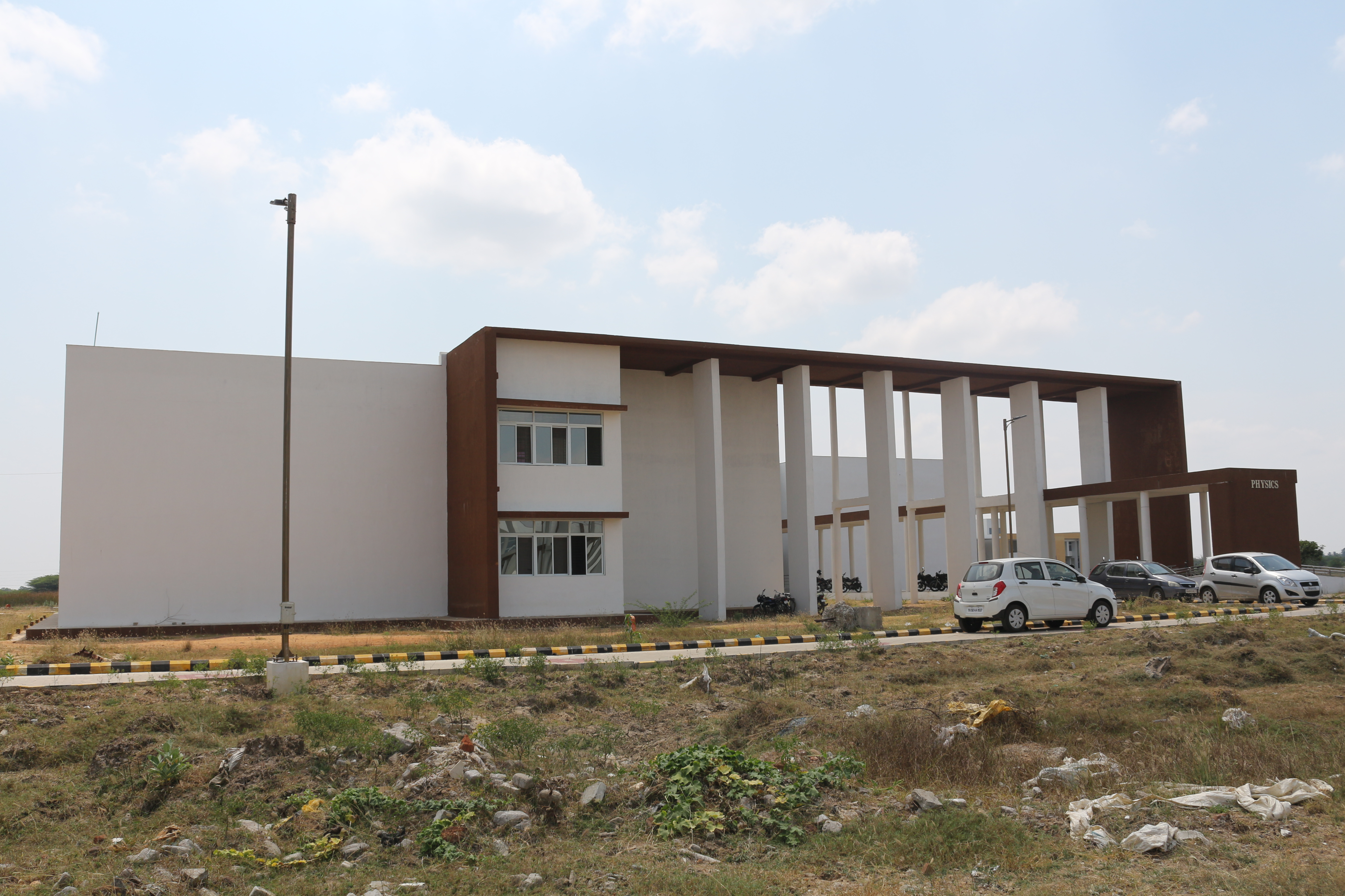 BUILDINGS IN CUTN